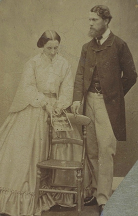 Clementina Maude, Viscountess Hawarden (1822-1865) and Donald Cameron, 24th Lochiel (1835-1905)